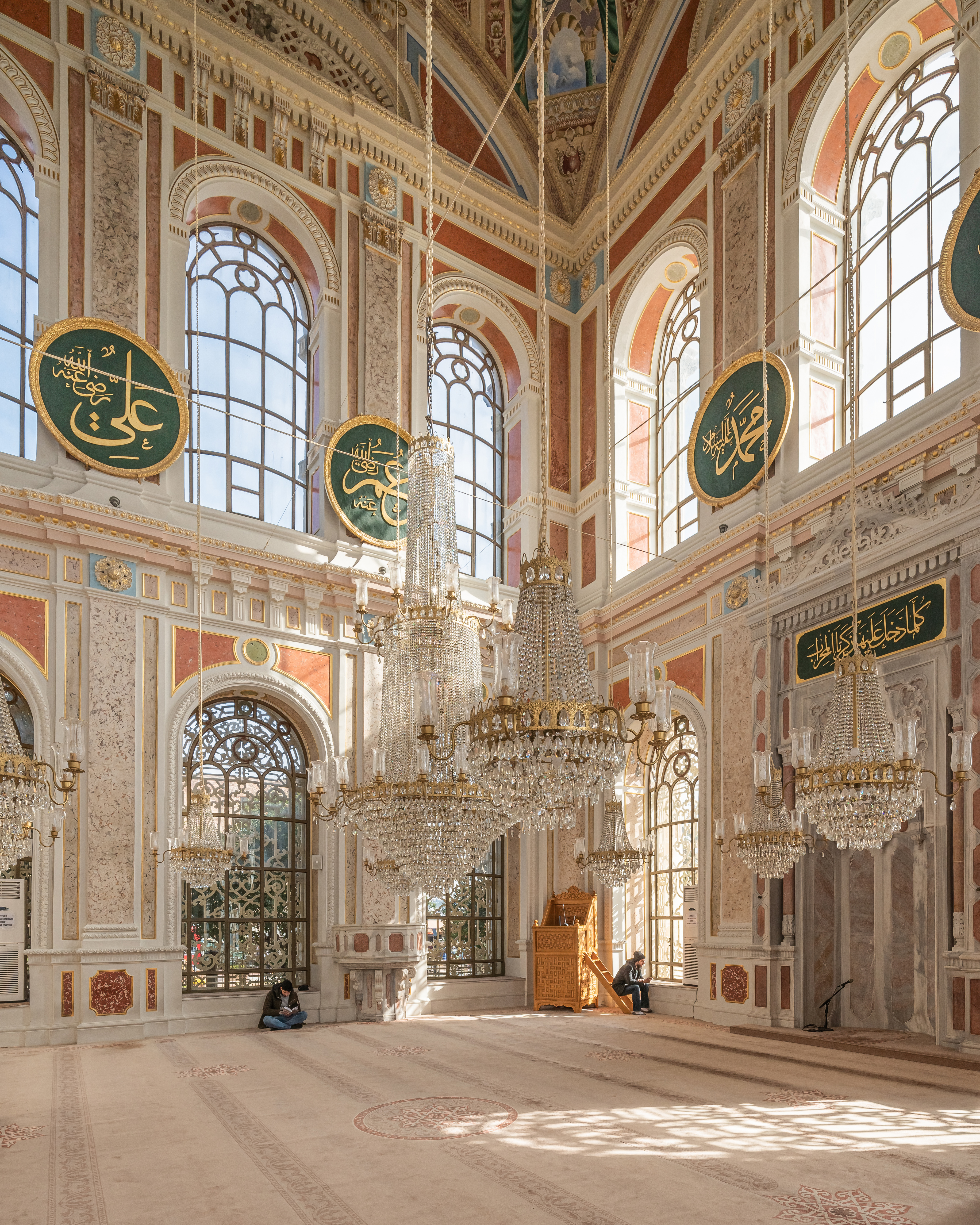 Ortaköy Mosque in Istanbul, Turkey